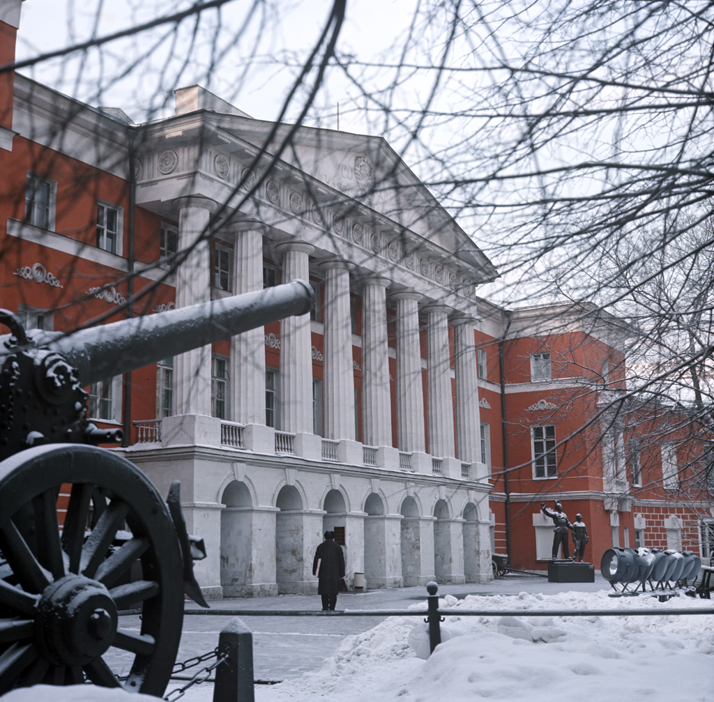 “State Museum of the Revolution”. State Museum of the Revolution of the USSR (now the State Central Museum of Contemporary History of Russia) founded in 1924. Located in central Moscow in the architectural monument of the late Classicism of the late 18th century. Occupied by Moscow English Club from 1831 until 1917.